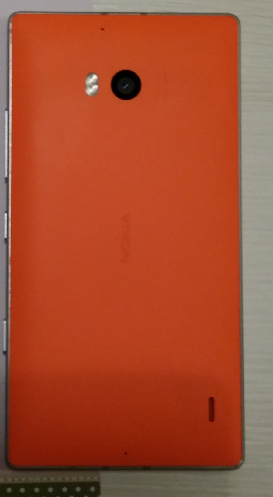 The back of the Nokia Lumia 930 (orange)